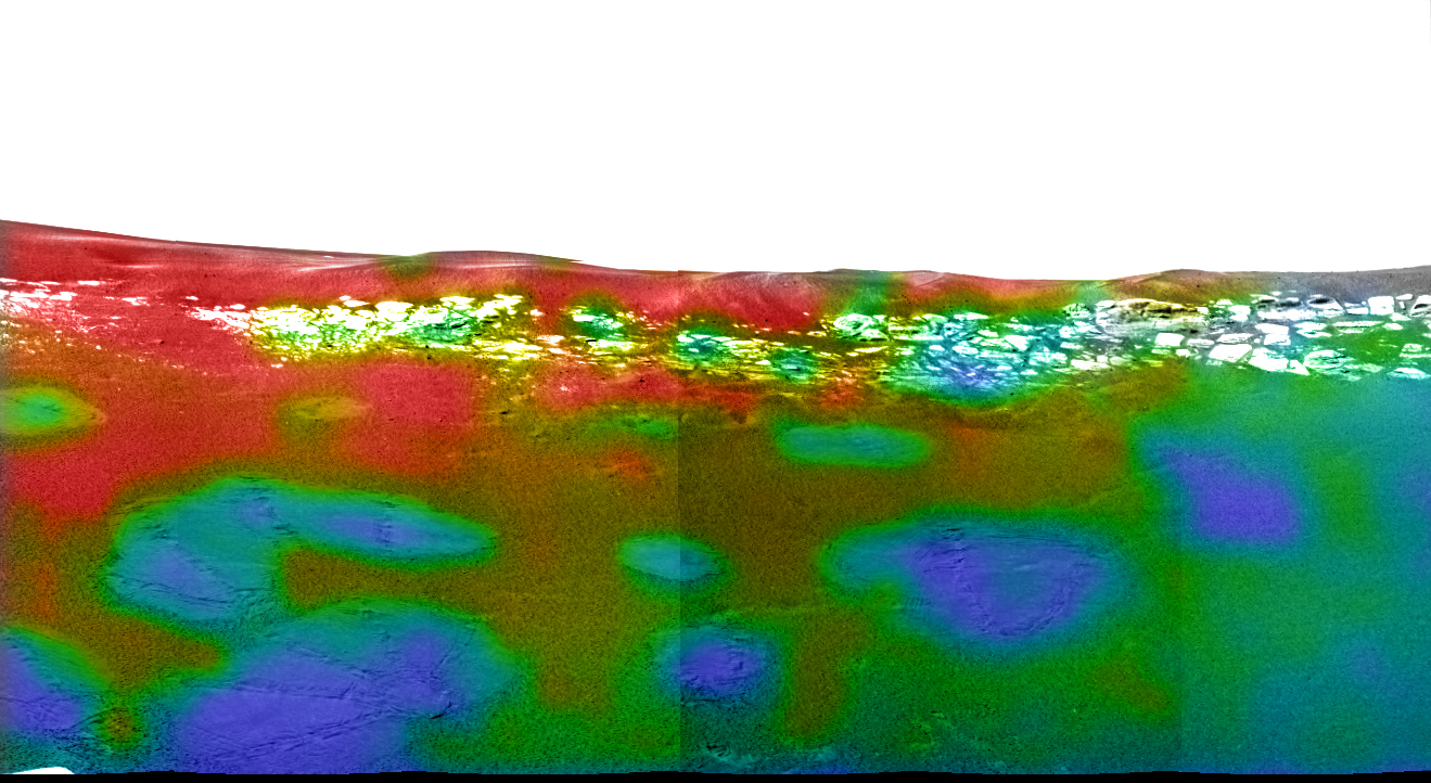 This map of a portion of the small crater currently encircling the Mars Exploration Rover Opportunity shows where crystalline hematite resides. Red and orange patches indicate high levels of the iron-bearing mineral, while blue and green denote low levels. The northeastern rock outcropping lining the rim of the crater does not appear to contain much hematite. Also lacking hematite are the rover's airbag bounce marks. This image consists of data from Opportunity's miniature thermal emission spectrometer superimposed on an image taken by the rover's panoramic camera.